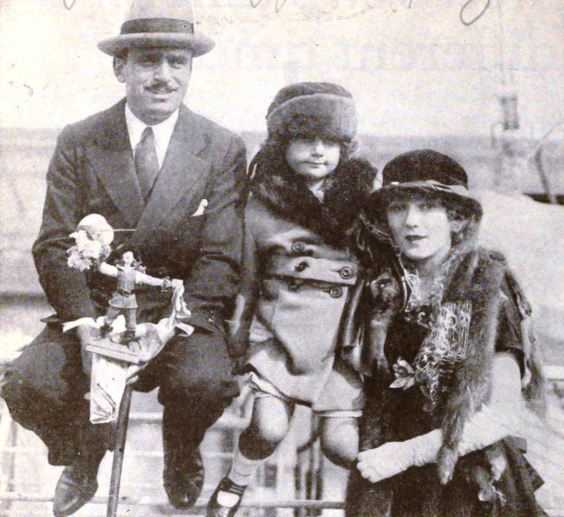 Douglas Fairbanks and Mary Pickford leaving for France. The child is Mary Pickford Rupp, the daughter of Lottie Pickford (Mary Pickford's sister). Fairbanks is holding a D'Artagnan doll from his role in the film The Three Musketeers (1921). Page 80 of the December 1921 Photoplay.